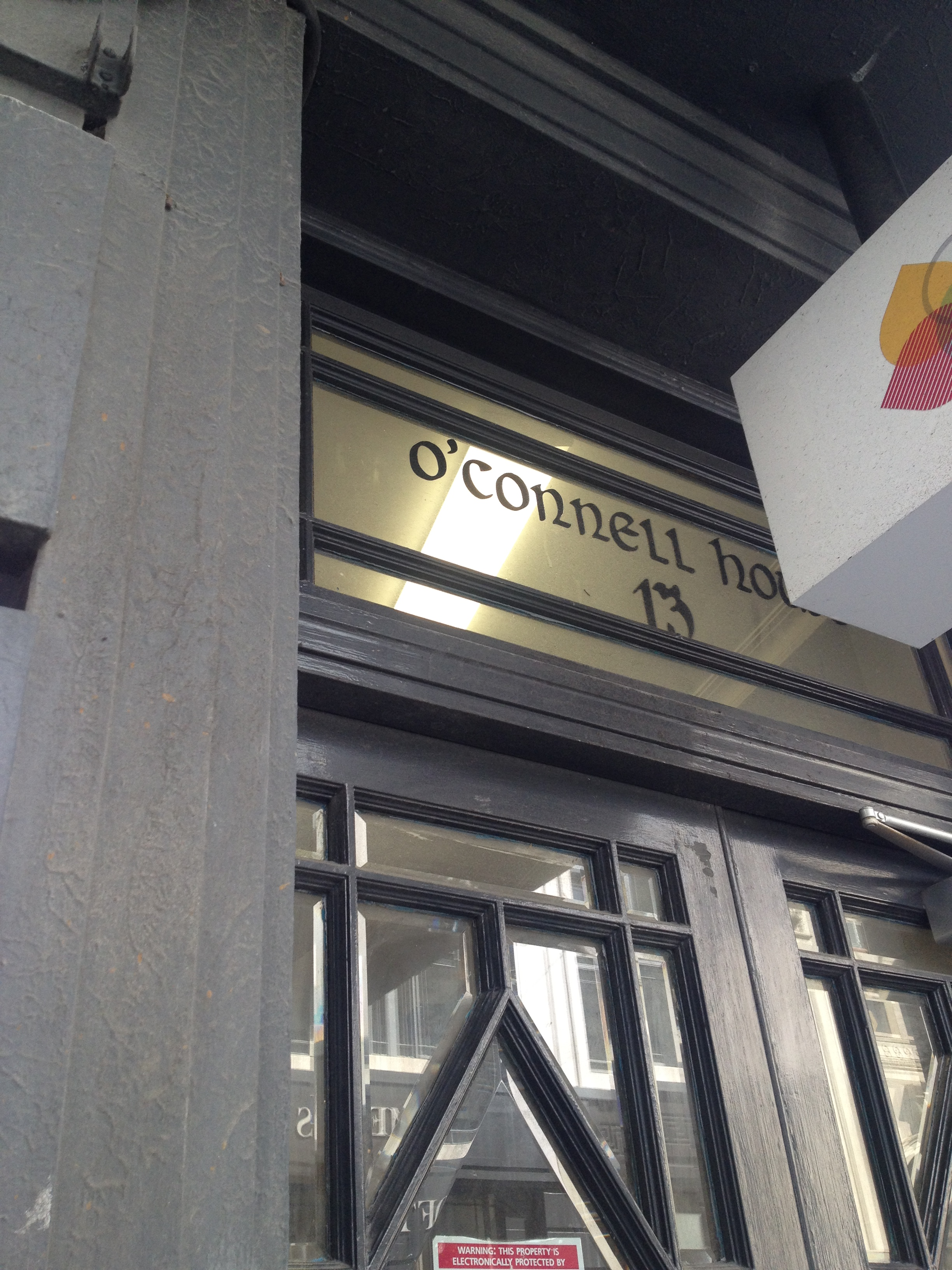 Entrance to O'Connell House, 13 O'Connell Street, Auckland